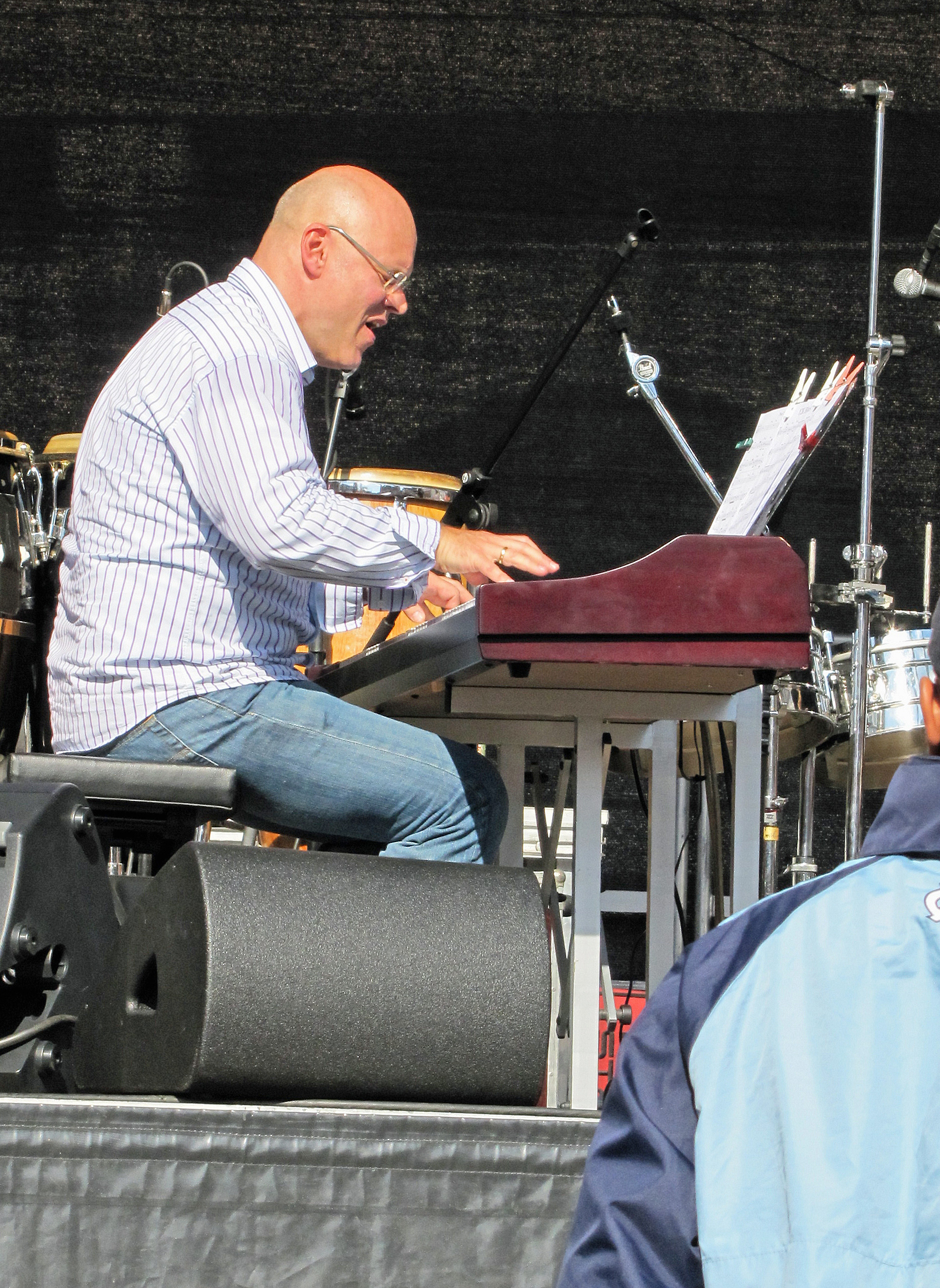 Christoph Spendel, German keyboarder, at "Jazz zum Dritten", 2010 in Frankfurt am Main, Germany.